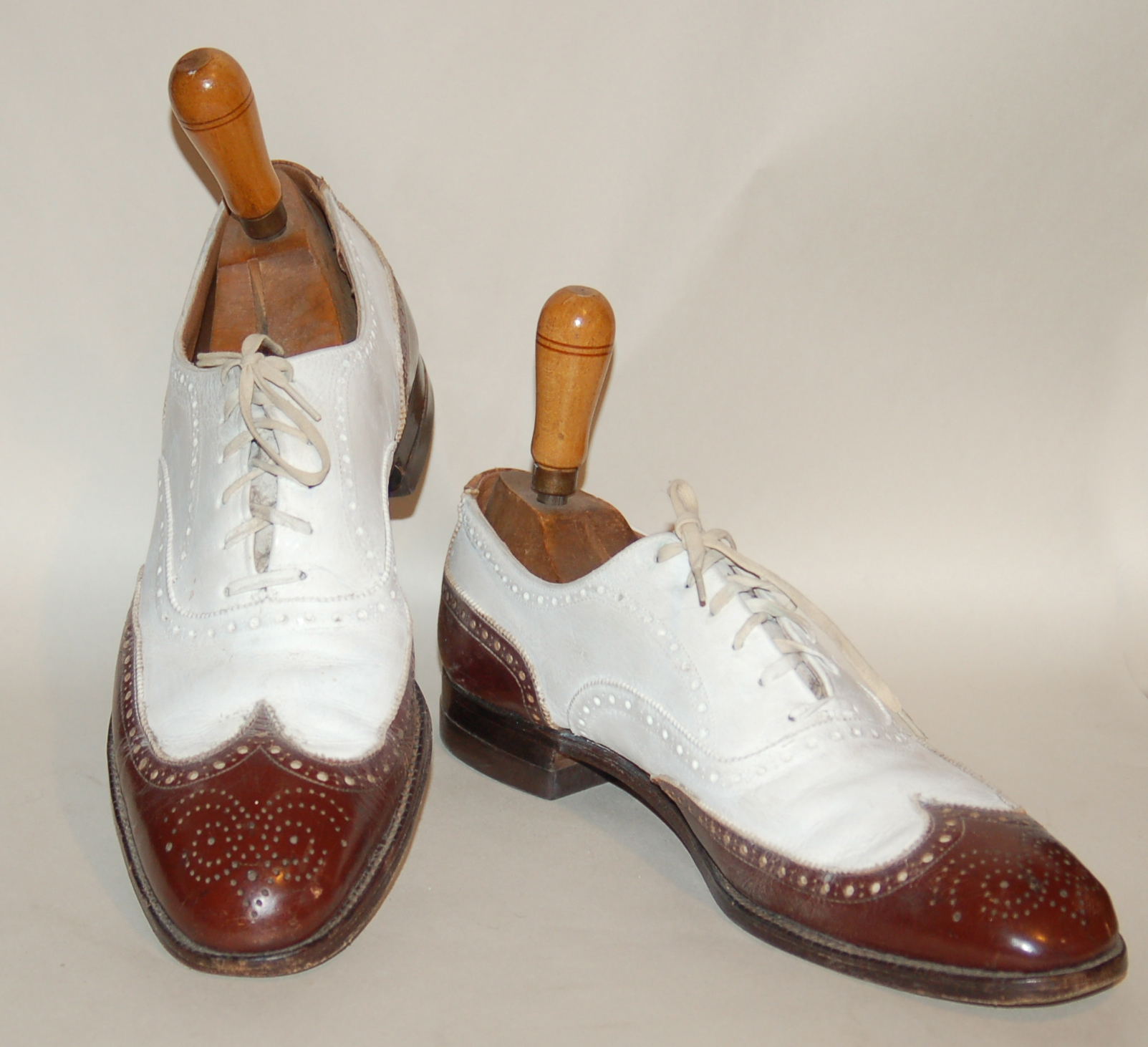 Men's circa 1930s full brogue (or wingtip) oxford spectator shoes